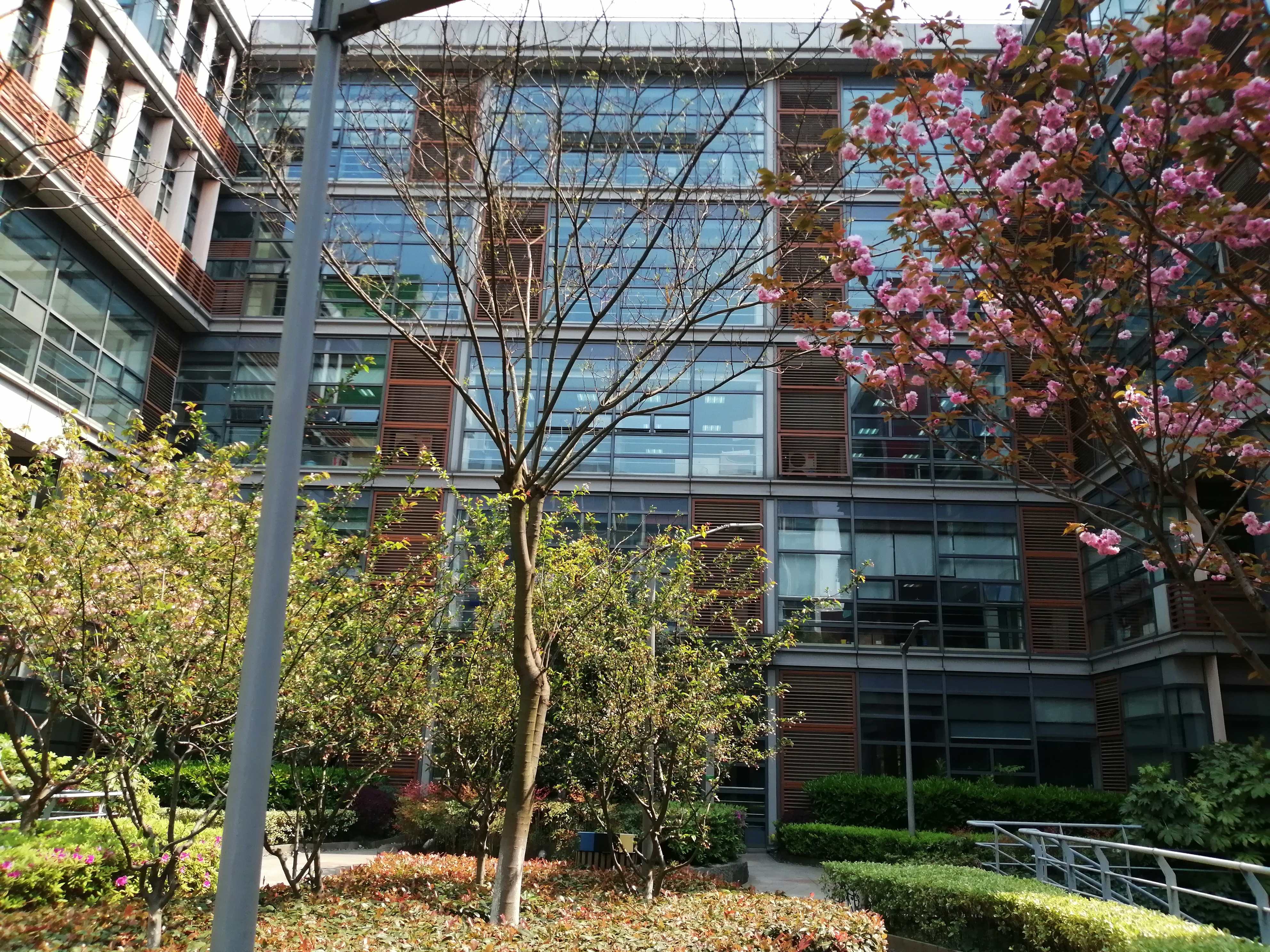 Located at Block 15. Established in 2013, the company have many famous games, like A dressing story and Mr Love: Queen's Choice.